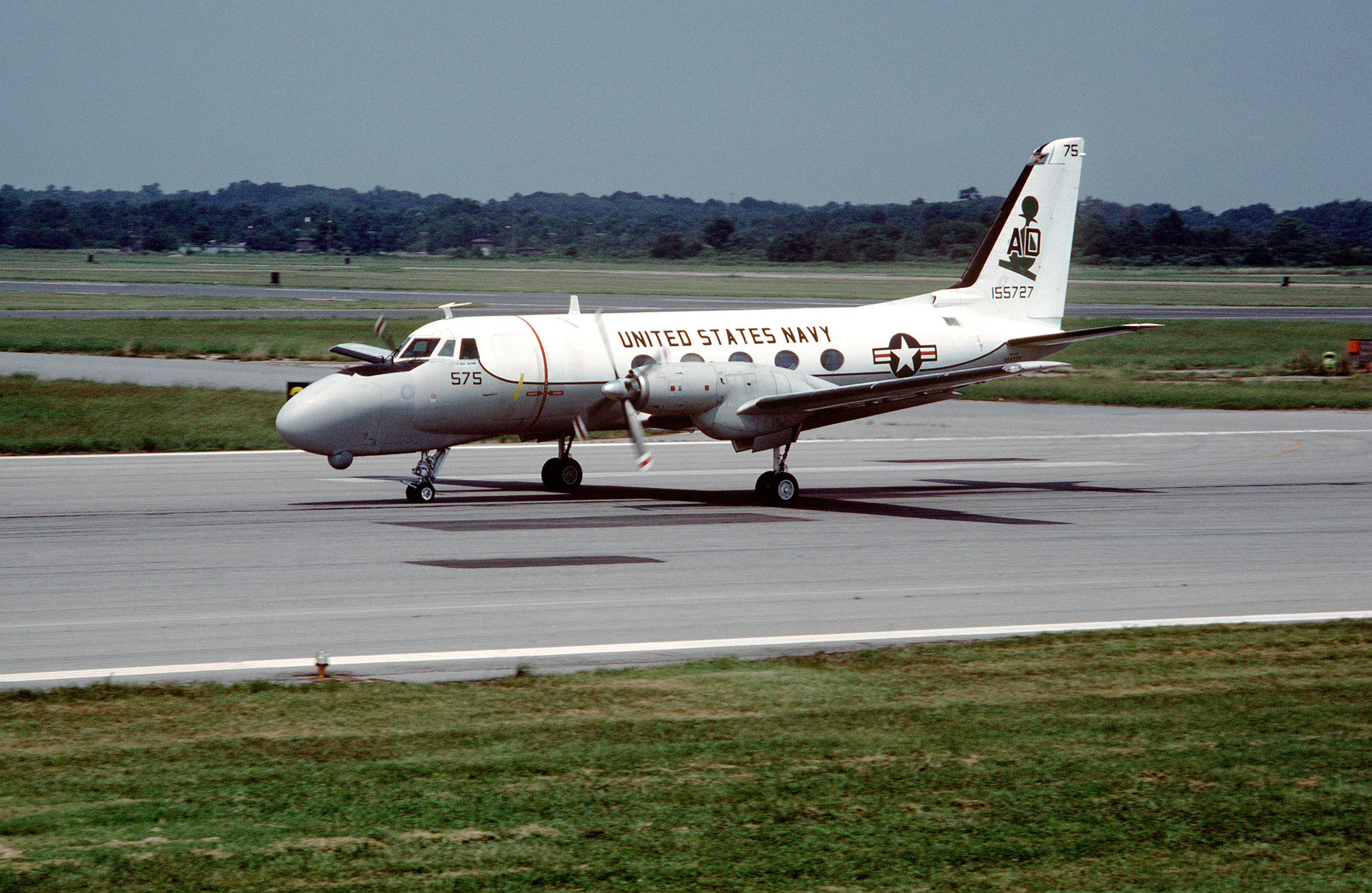 A U.S. Navy Grumman TC-4C Academe aircraft (BuNo 155727) from attack squadron VA-42 Green Pawns, at Naval Air Station, Oceana, Virginia (USA), on 1 August 1989. The TC-4C was a Gulfstream I fitted with the nose section of a Grumman A-6 (later A-6E TRAM) for bombardier/navigator training. This aircraft was retired to the AMARC as 4G0004 on 13 September 1994.